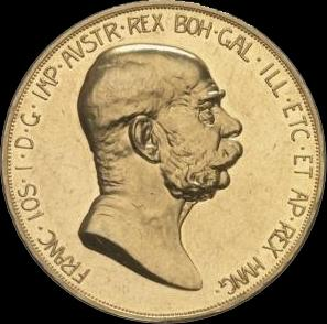 100 coronae, 1908 (Austria) Franz Joseph's 60th anniversary of reign - obverse